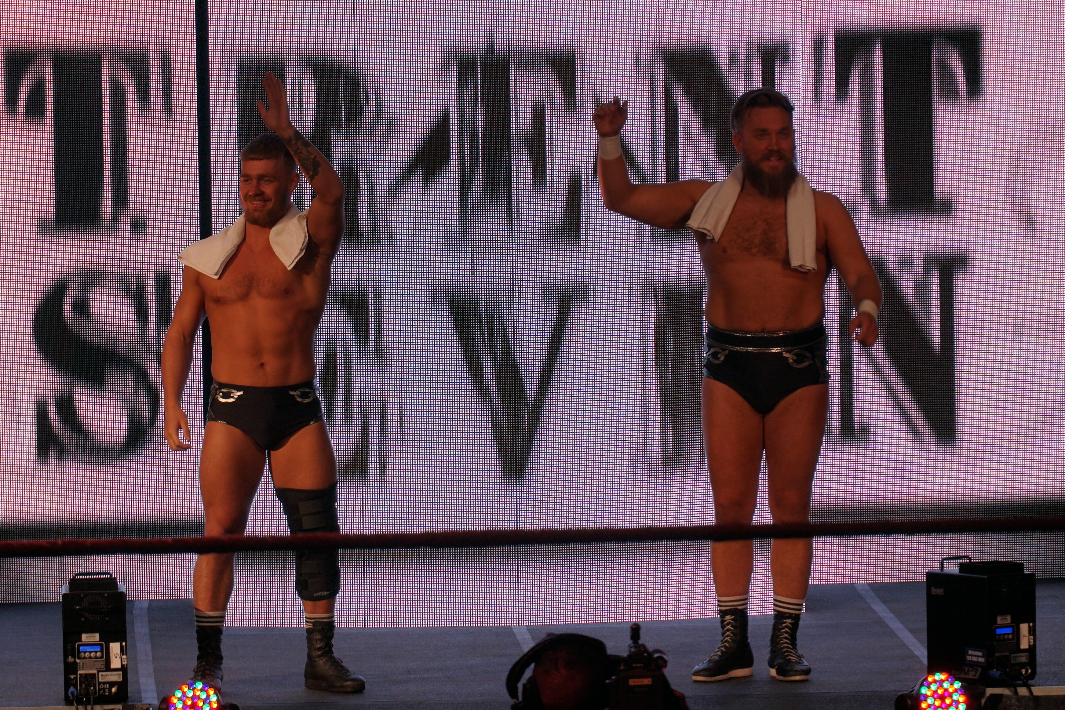 Trent Seven (right) & Tyler Bate entering at WWE Axxess in April 2018.